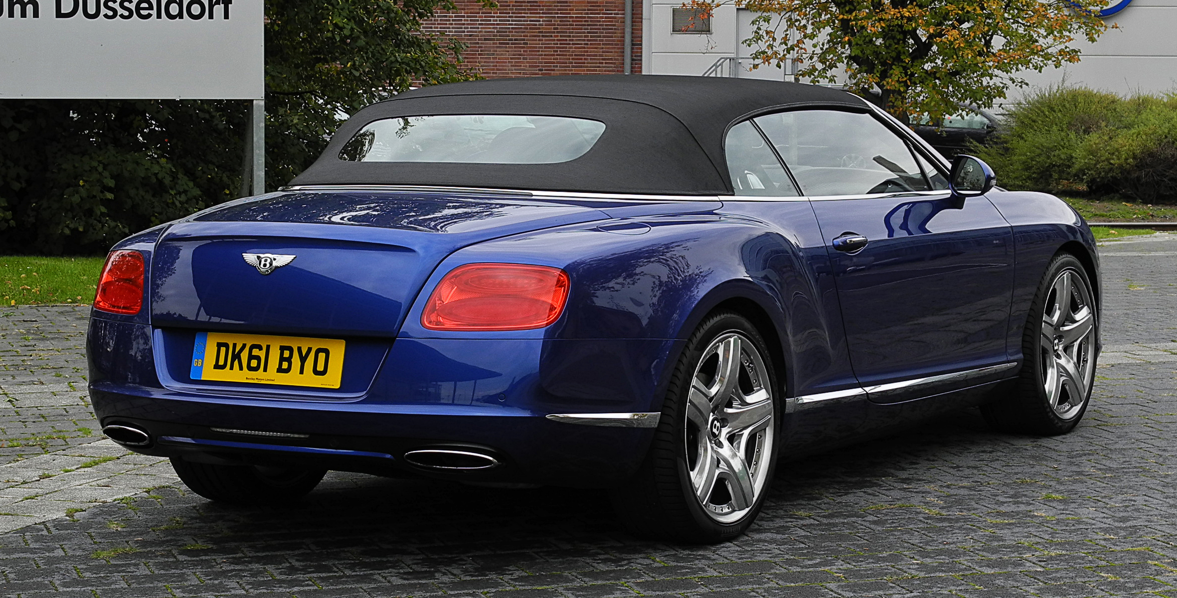 Bentley Continental GTC (II)